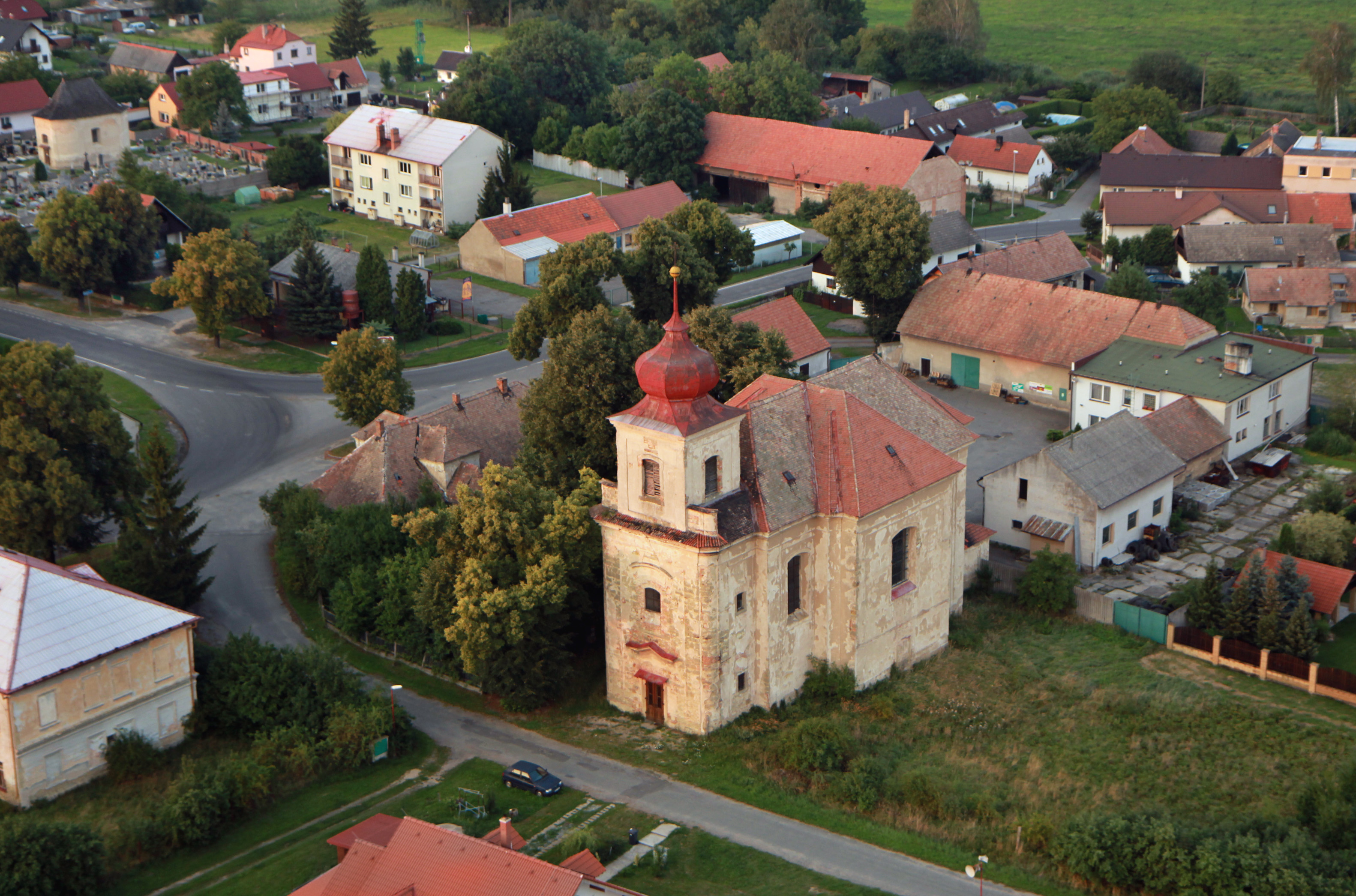 Aerial view of Rejšice, part of Smilovice village, Czech Republic